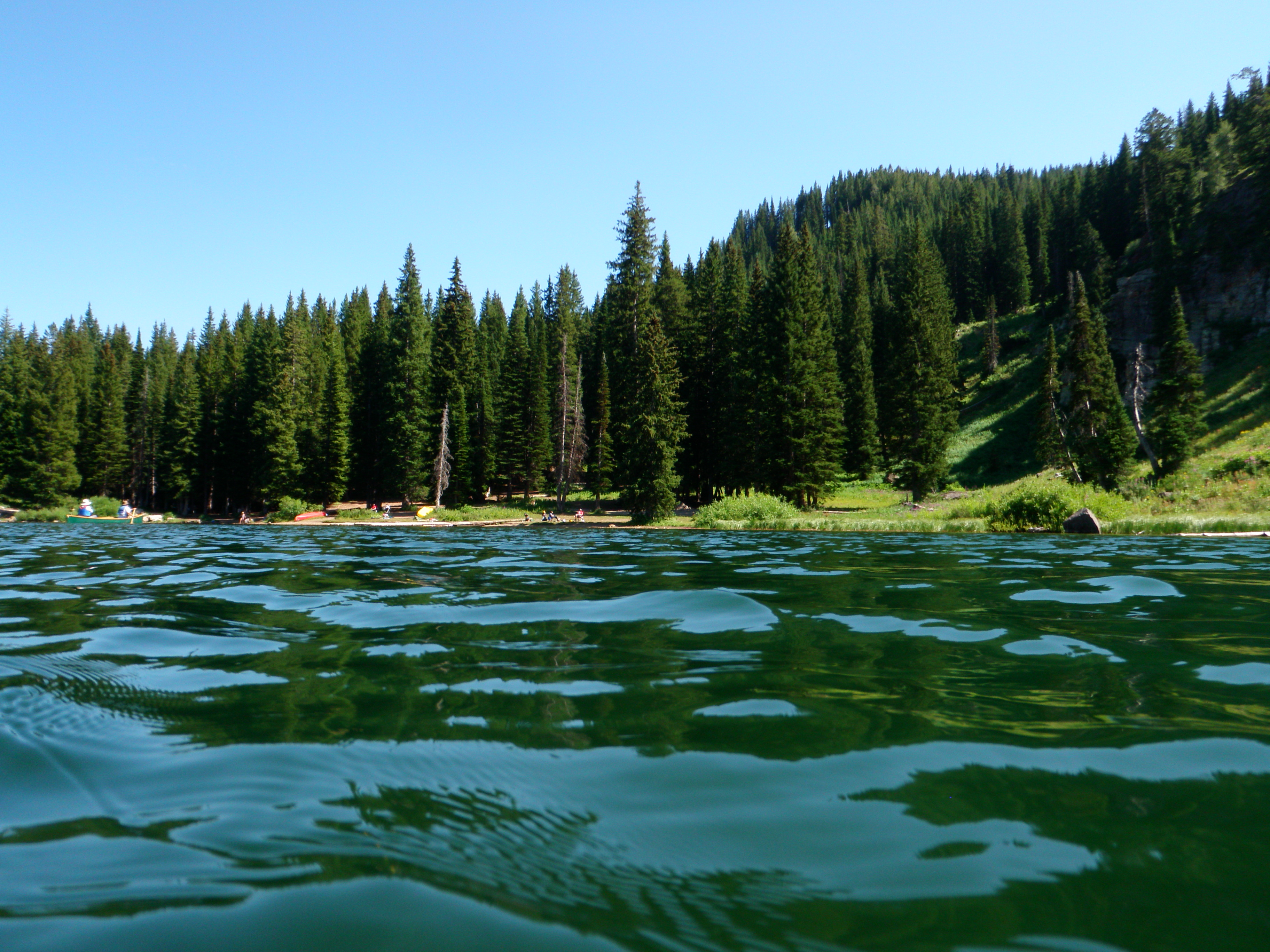 Tony Grove Lake, Cache County, Utah, 11 August 2009 . Photo by Melece Meservy of Moscow, Russia.